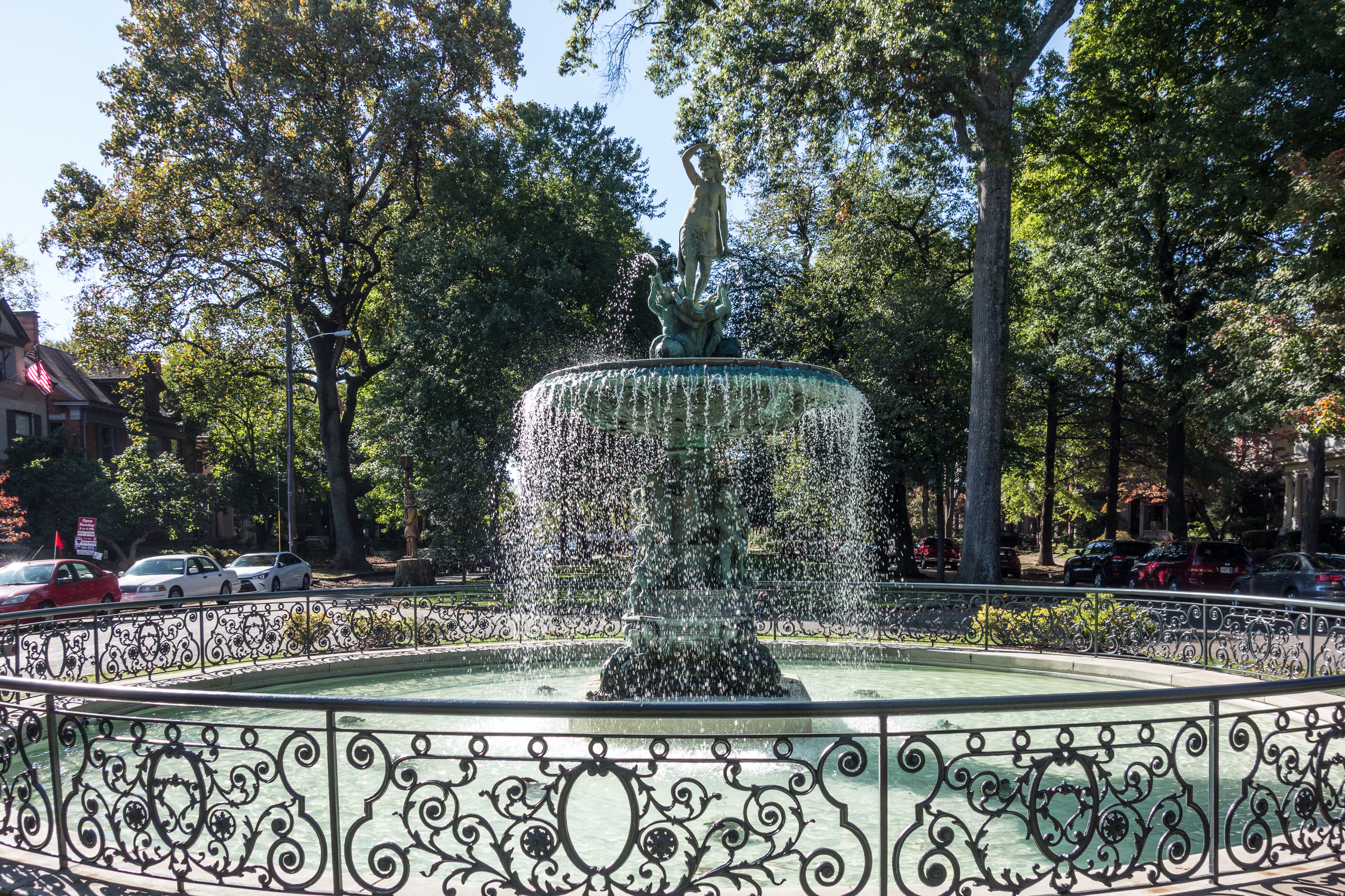 The Fountain in St.James Court, Louisville, Kentucky. Originally installed in the center of St James Court in 1892.